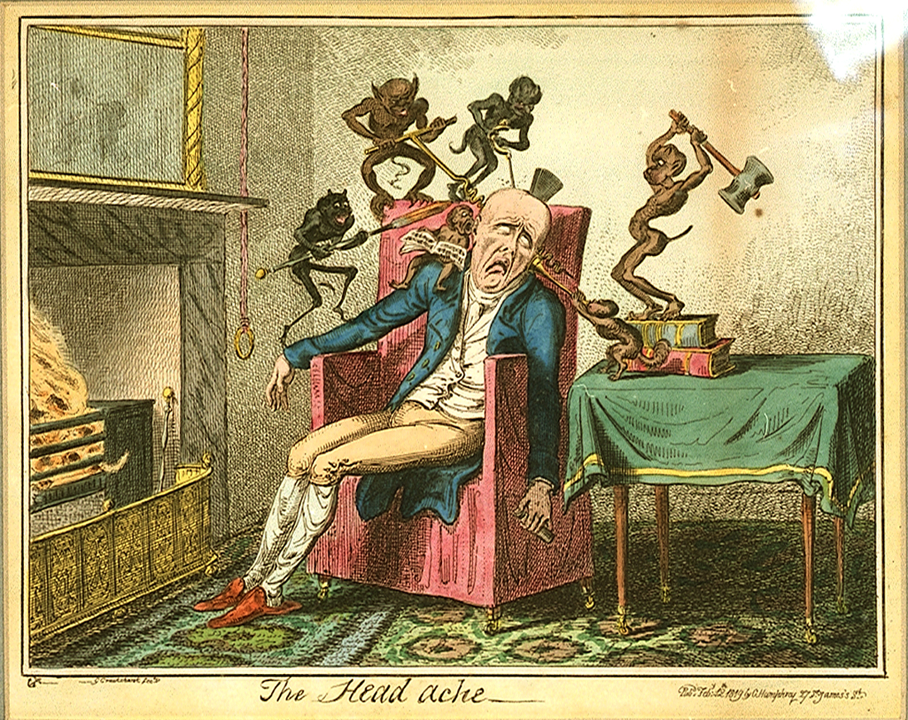 The Headache (caricature)Hand-coloured.